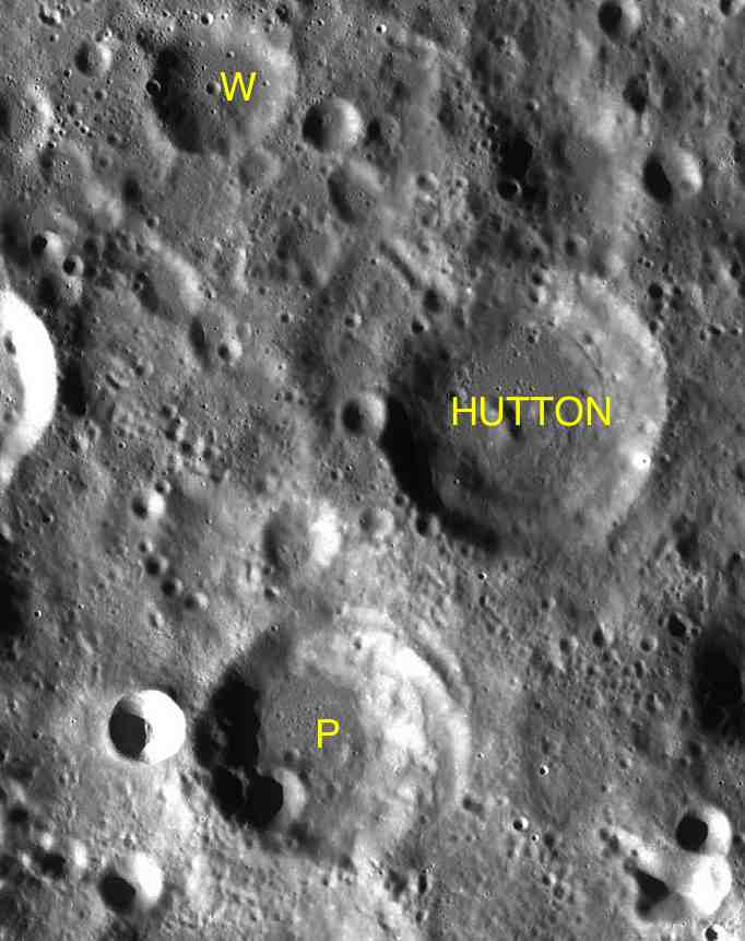 Part of the chart LAC-32 used for the presentation